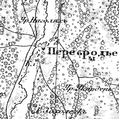 Perebrody on the map "Военно-топографическая карта Российской Империи" (known as "Schubert's map"), XX 5, 1866-1887 (issued in 1911).